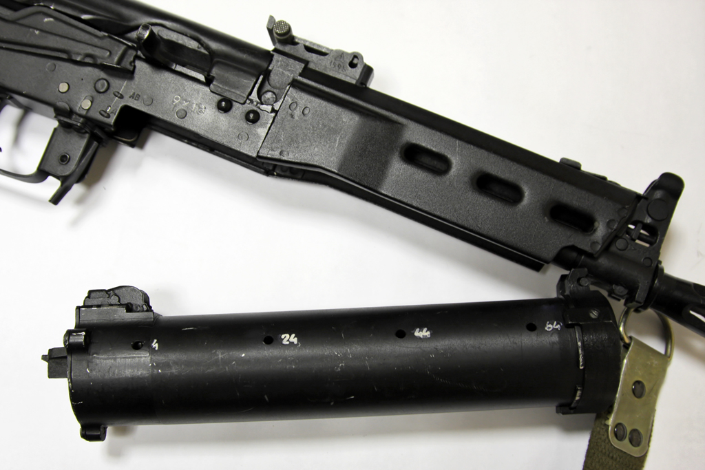 9mm submachine gun PP-19 Bizon with detached magazine Runa Simi: 9мм пистолет-пулемет ПП-19 Бизон, вид с извлеченным магазином